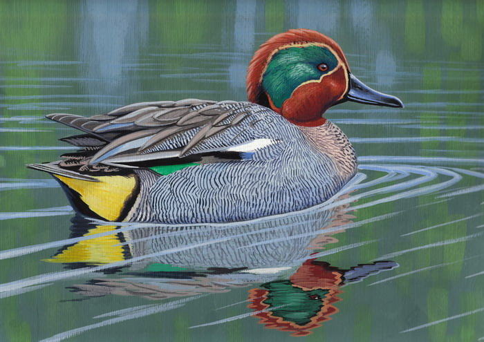 Painting of a Common Teal or Eurasian Teal (Anas crecca, a common and widespread duck in Eurasia), here a male with his typical nuptial colors (note the white stripe on wing, differentiating it from its North American counterpart, Anas carolinensis).